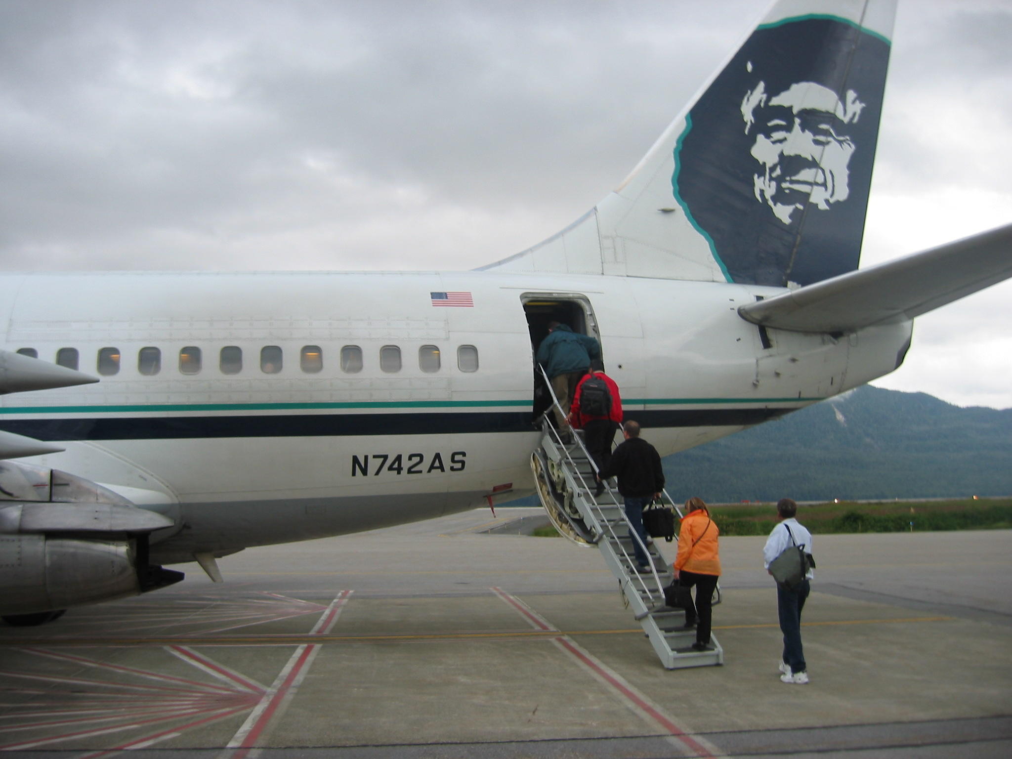 Alaska Airlines 737-200 (N742AS) combi with passengers boarding in Wrangell, Alaska.